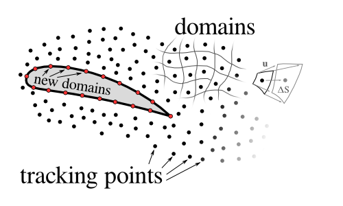 It shows flow field representation, used in VVD method. Streamlined body and vortex domains in flow.